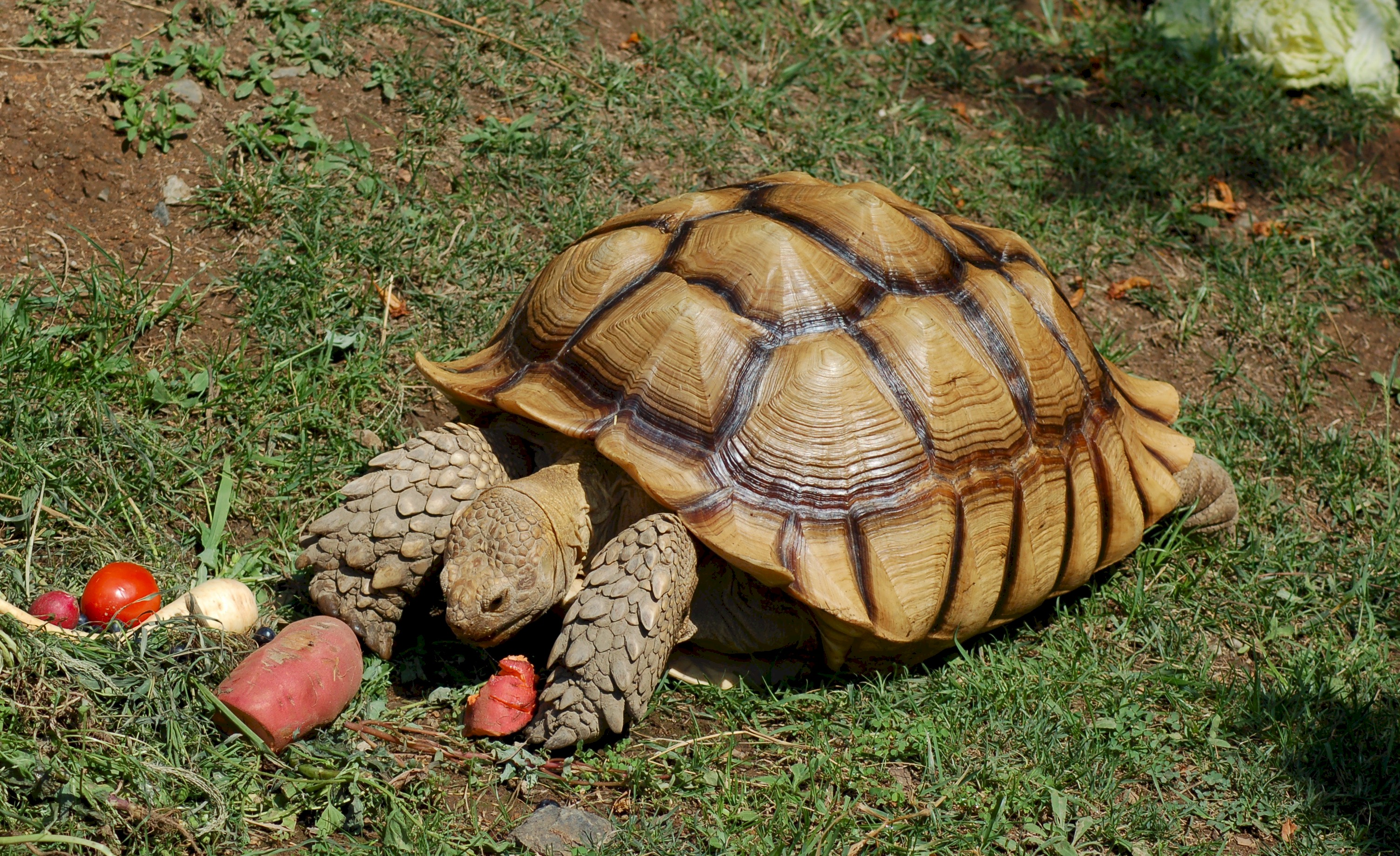 An African Spurred Tortoise at the Oakland Zoo, Oakland, California, USA. The one specimen at Oakland Zoo is a female.